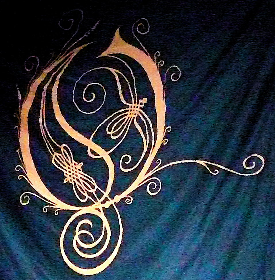 ouyeah! Opeth's logo picture.